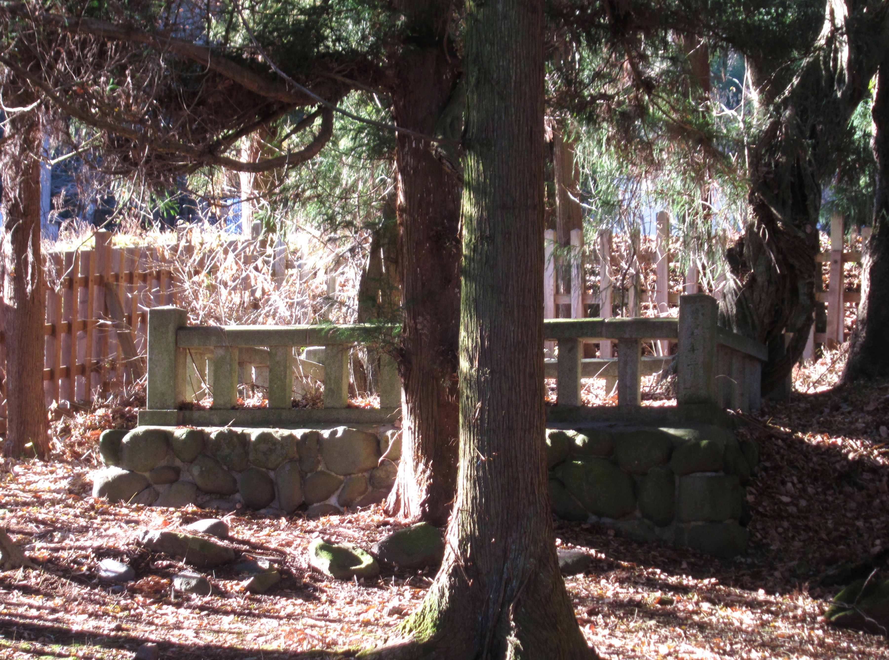 Claimed burial place of the god Takeminakata / the goddess Yasakatome in the Maemiya.